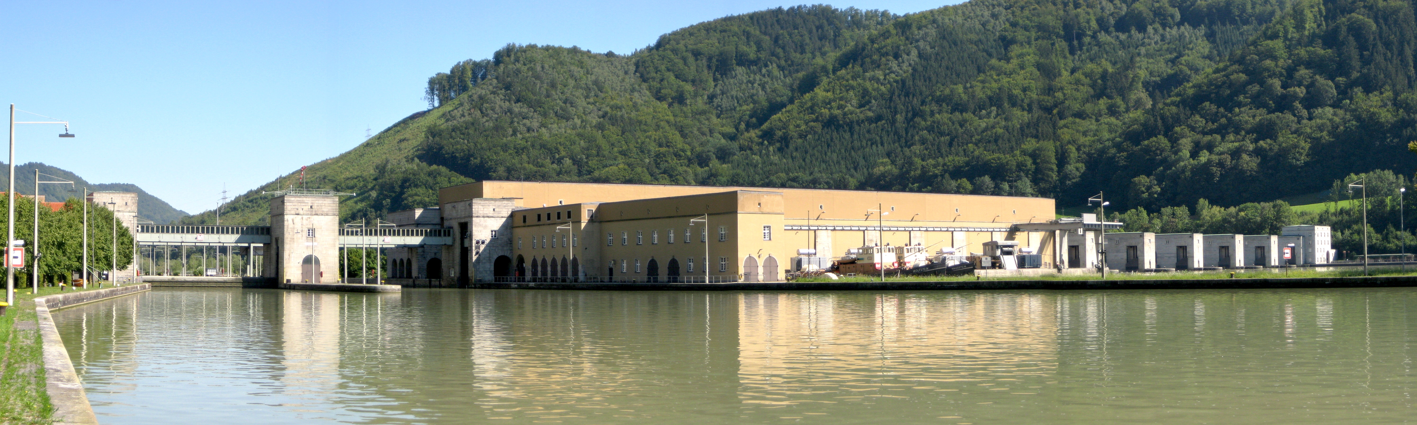 Hydroelectric power plant “Jochenstein” on the Danube